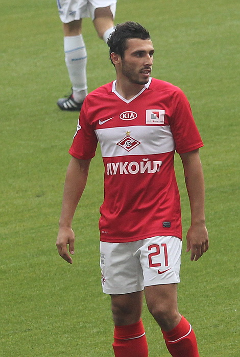 Nikita Bazhenov